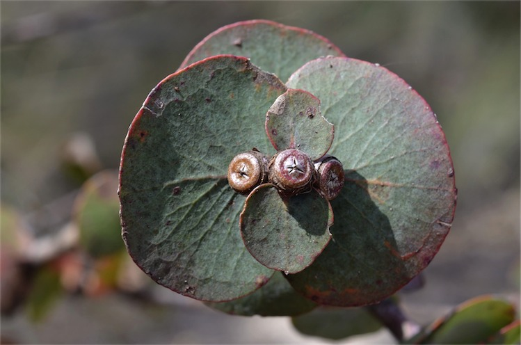 Fruit of Eucalyptus pulverulenta in the Scottsdale Bush Heritage property, near Bredbo, New South Wales